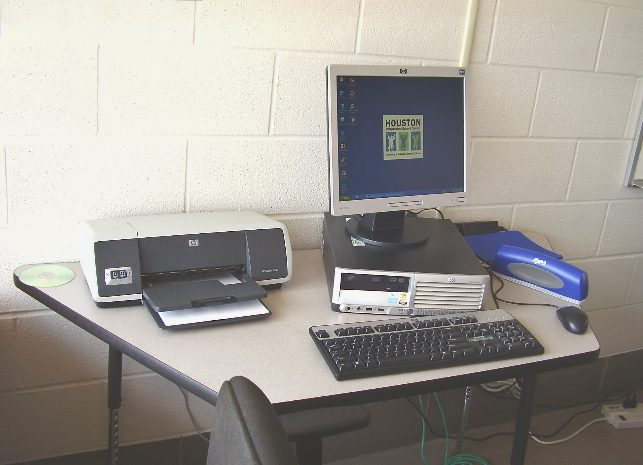 HP Compaq computer and printer of the Houston Independent School District